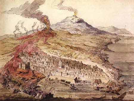 Drawing of Etna's 1669 eruption.